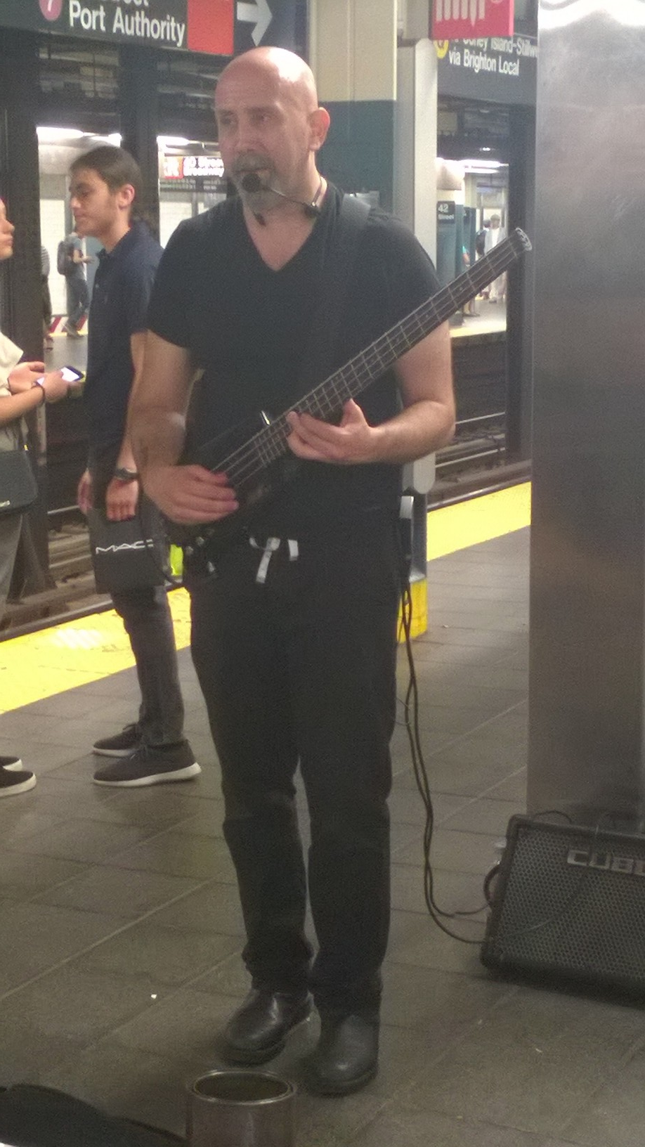 A street musician playing a headless guitar in a NYC subway station.